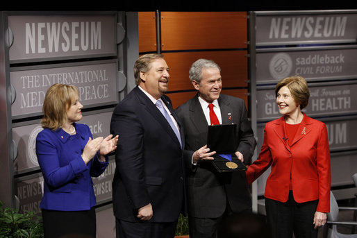 President George W. Bush, joined by Mrs. Laura Bush, is presented with the International Medal of PEACE by Pastor Rick Warren and his wife, Kay Warren, left, Monday, Dec. 1, 2008, following their participation at the Saddleback Civil Forum on Global Health in Washington, D.C.